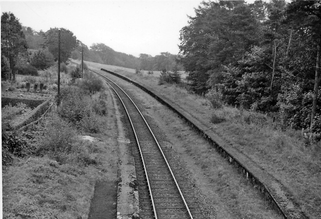 Bieldside Station (remains). Near to Milton of Murtle, Aberdeen, Great Britain. View eastwards, towards Aberdeen; Aberdeen - Ballater line; station closed 5/4/37, line closed 28/2/66 (goods 18/7/66).